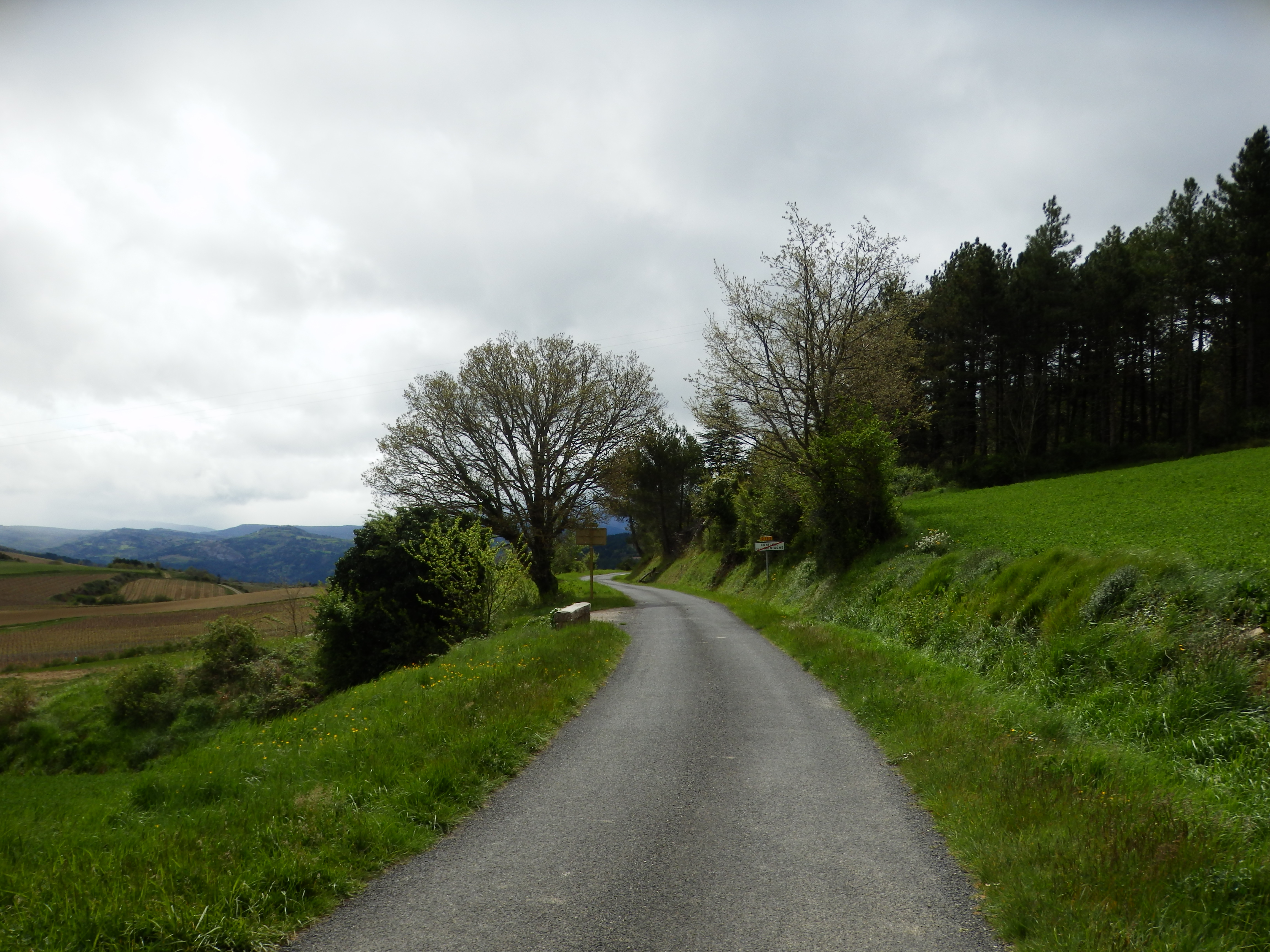 D152 in Conilhac-de-la-Montagne, Aude, France